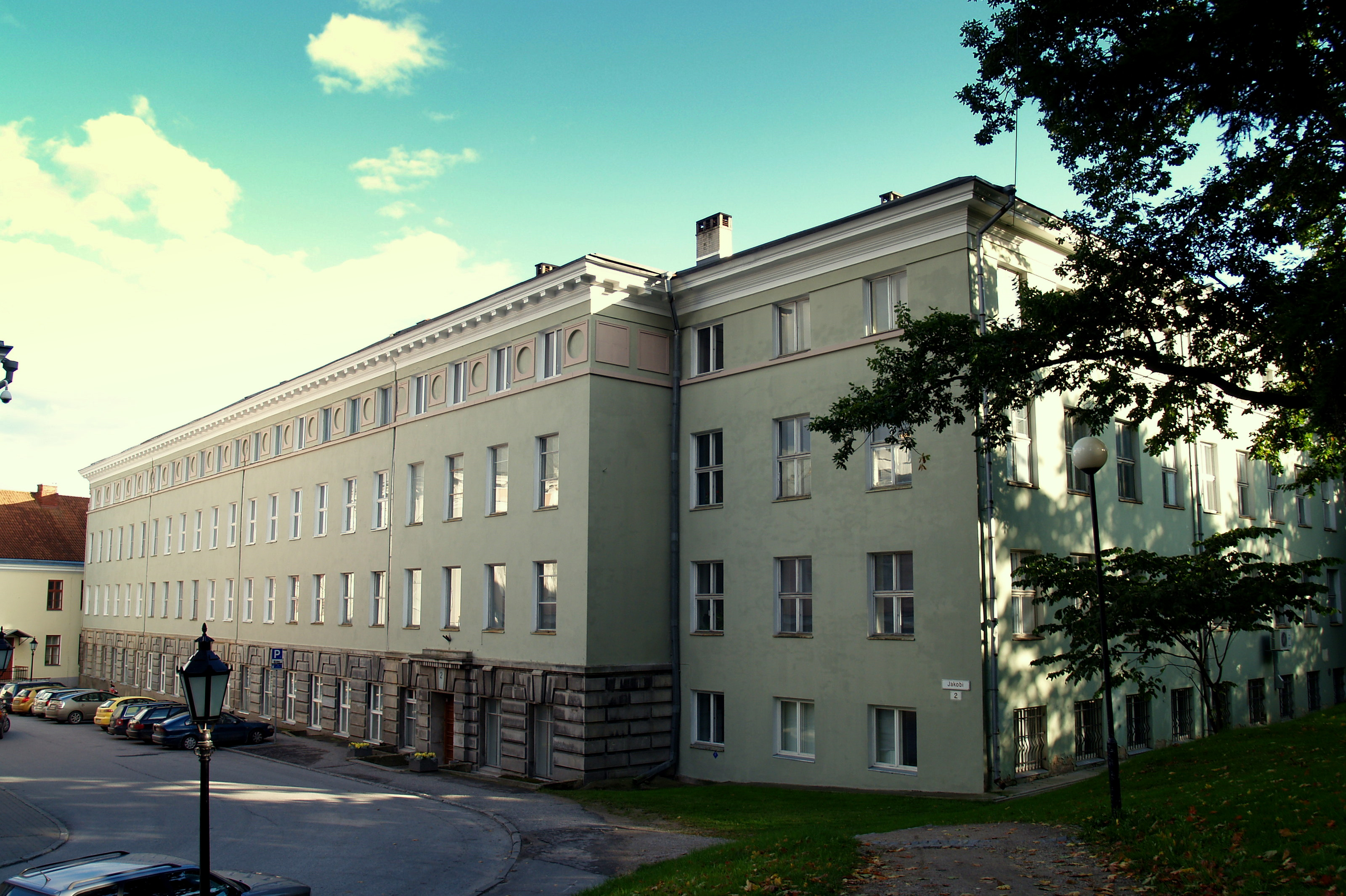 Old chemistry building of Tartu University.